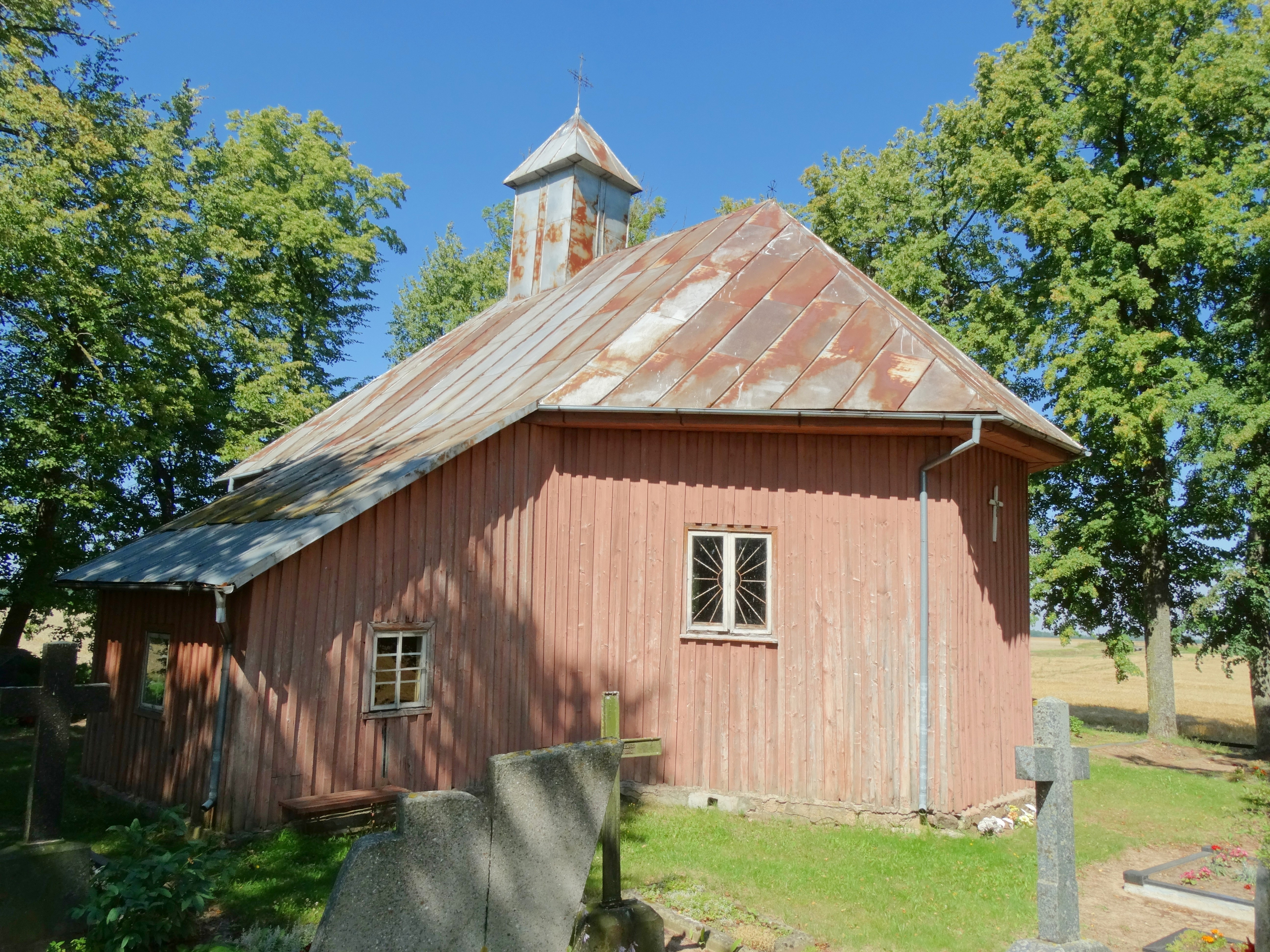 Balkaičiai, chapel, Joniškis District, Lithuania